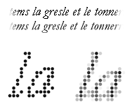 Antialiasing text